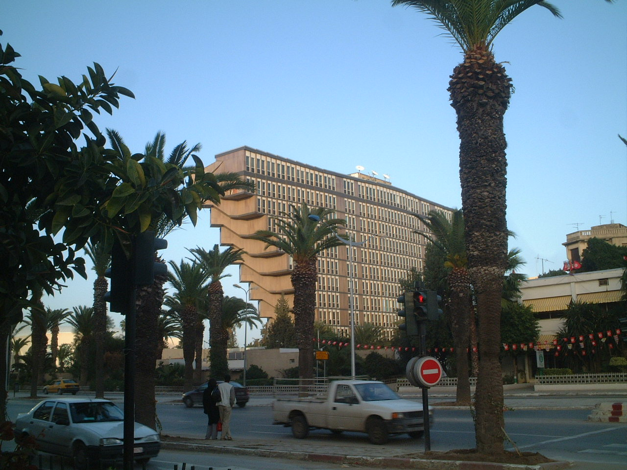 The Hôtel du Lac in Tunis, Tunisia